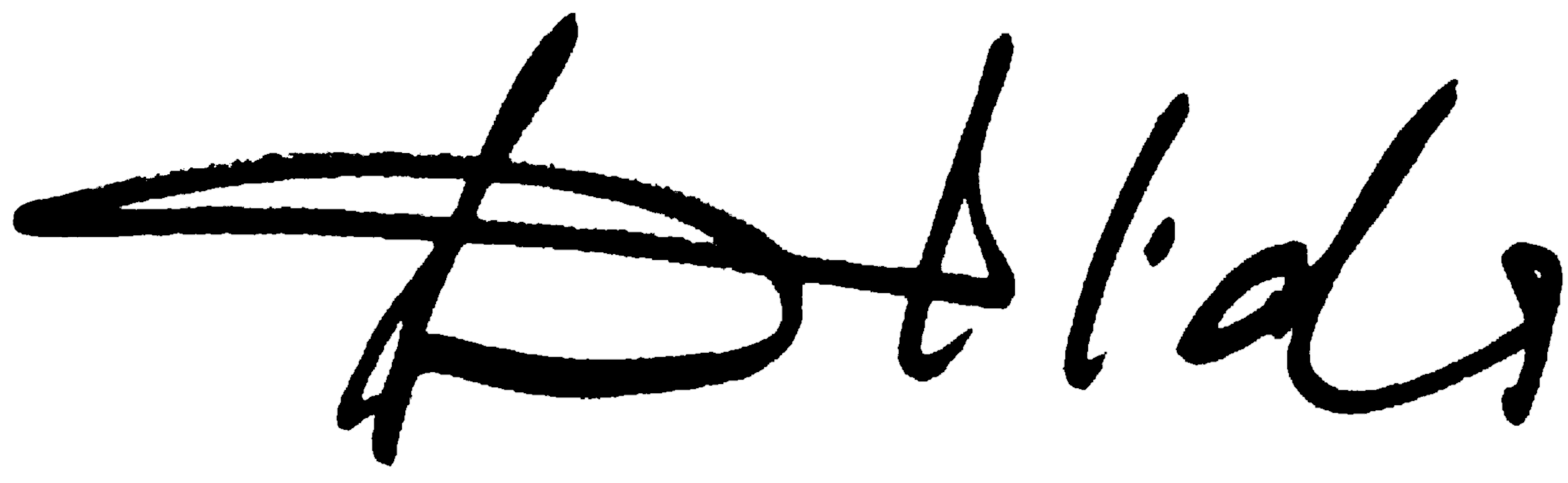 The signature of Dalida, circa mid 70s